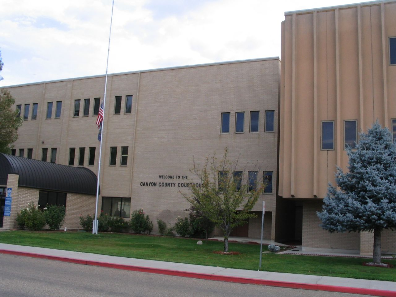 Caldwell is a city in and the county seat of Canyon County, Idaho, United States. The population was 46,237 at the 2010 census. Caldwell is considered part of the Boise metropolitan area. Caldwell is the home of the College of Idaho. The present day location of the City of Caldwell is along a natural passageway to the Inland and Pacific Northwest. Indian tribes from the west coast, north Idaho and as far away as Colorado would come to the banks of the Boise River for annual trading fairs, or rendezvous. European and some Hawaiian explorers and traders soon followed the paths left by Indians and hopeful emigrants later forged the Oregon Trail and followed the now hardened paths to seek a better life in the Oregon Territory. Pioneers of the Trail traveled along the Boise River to Canyon Hill and forded the river close to the "Silver Bridge" on Plymouth Street. During the Civil War, the discovery of gold in Idaho's mountains brought a variety of new settlers into the area. Many never made it to the mines but chose to settle along the Boise River and run ferries, stage stations, and freighting businesses. These early entrepreneurs created small ranches and farms in the river valleys. Caldwell's inception occurred largely as a result of the construction of the Oregon Short Line Railroad, which connected Wyoming to Oregon through Idaho.